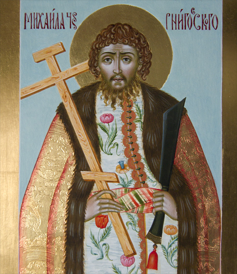 Michael of Chernigov, II of Kiev (reigned 1238-1239 and 1241-1246)